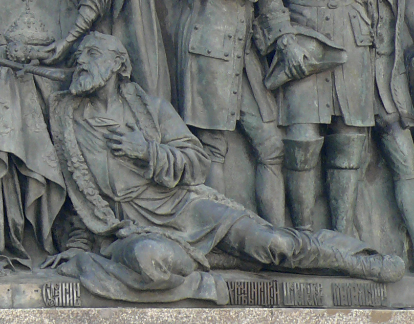 Ivan Susanin on the Monument «Millennium of Russia» in Veliky Novgorod